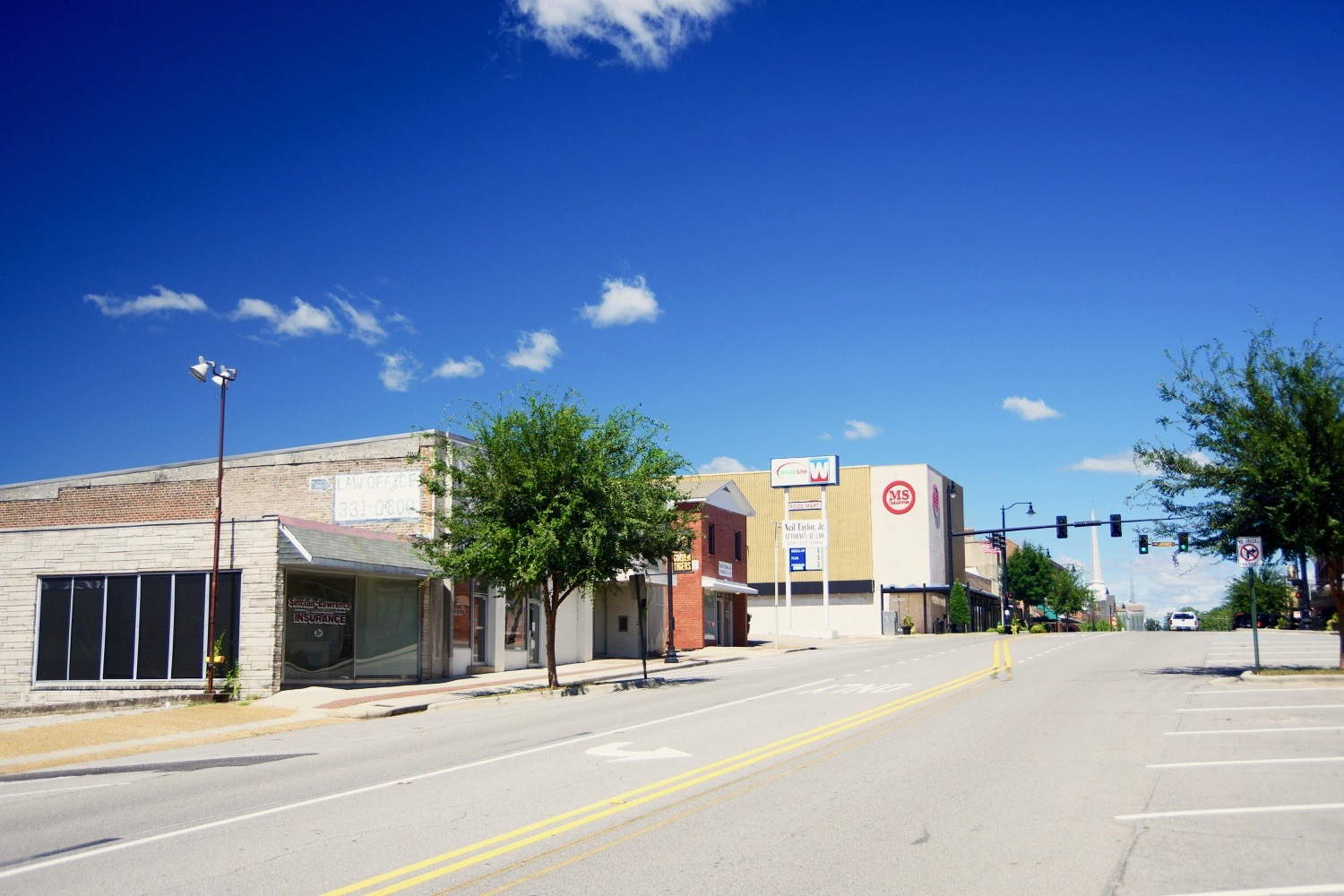 View along Jackson Avenue in Russellville, Alabama, United States.